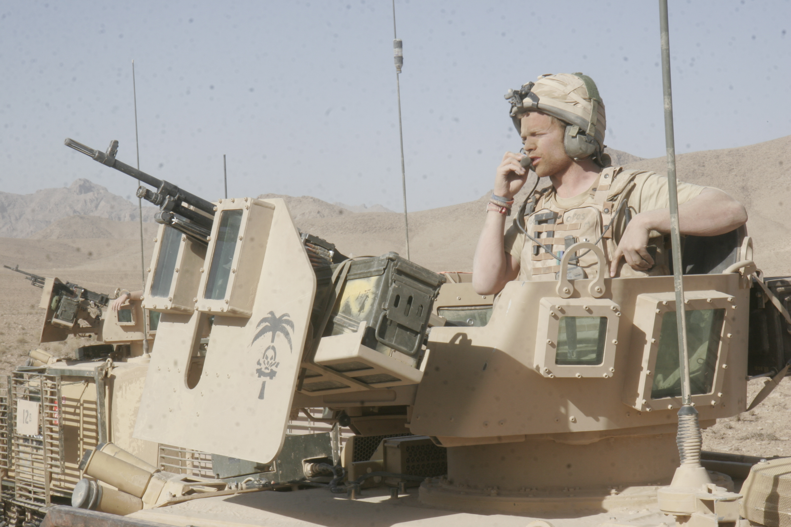 A British soldier from The Queen's Royal Lancers, Viking Group, conducts security operations Sept. 4, 2008, in Afghanistan, for a new turbine being moved from Kandahar Airfield to the Kajaki Dam in the country's Helmand Province. (U.S. Marine Corps photo by Gunnery Sgt. Clint Runyon/Released)